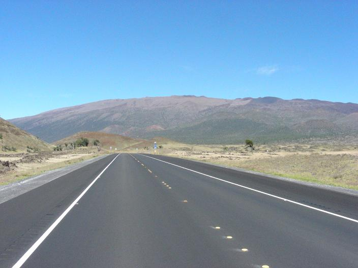 New section of Saddle Road (Hawaii State Route 200), Mauna Kea in the background